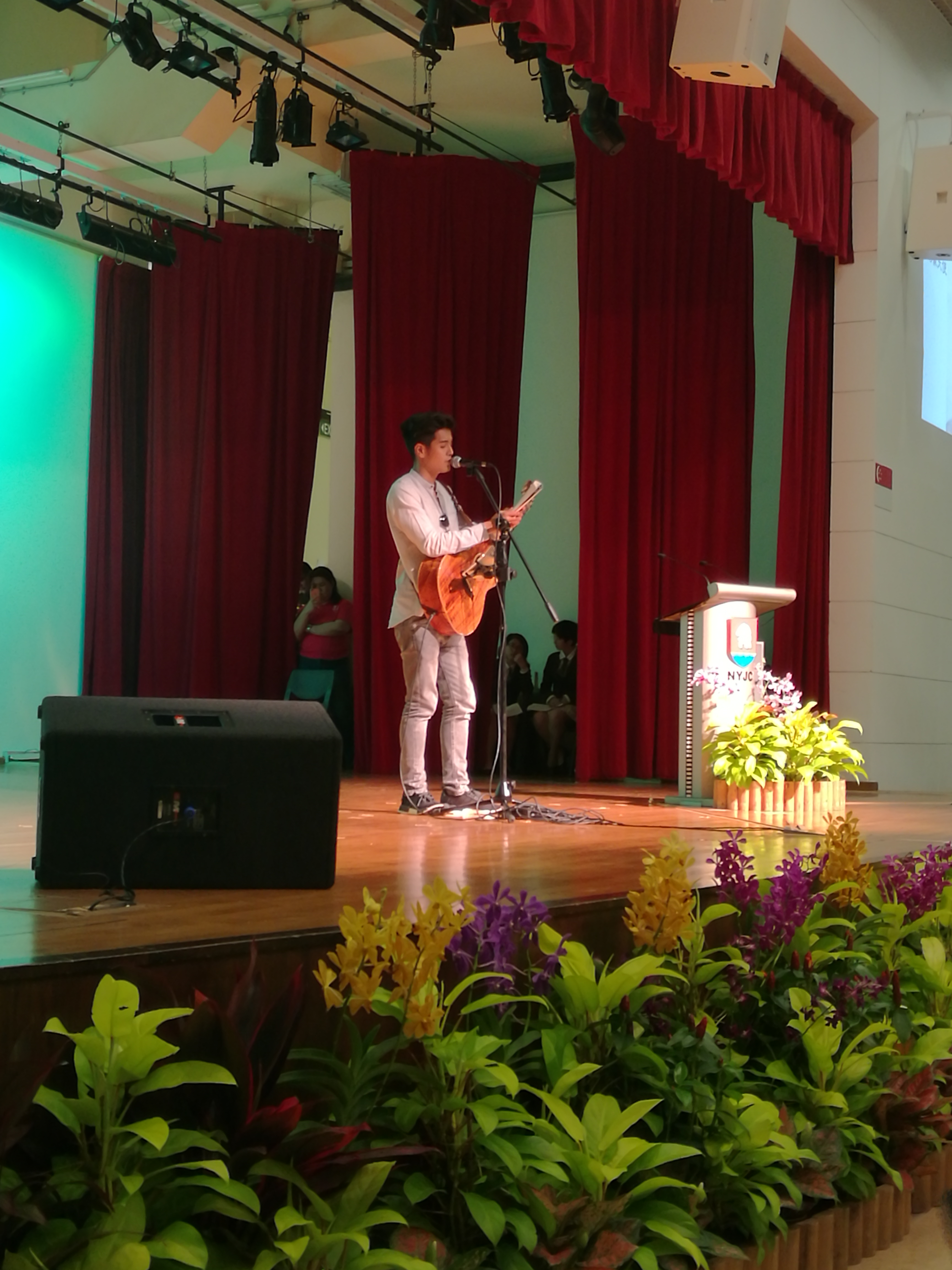 Singer Nathan Hartono performing at Nanyang Junior College's Lecture Theatre 4 for the “Literature Under the April Sky” nationwide event.